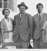 (left to right:) Helene Weyl, her husband Hermann Weyl, and their son Joachim Weyl, 1932 near Göttingen